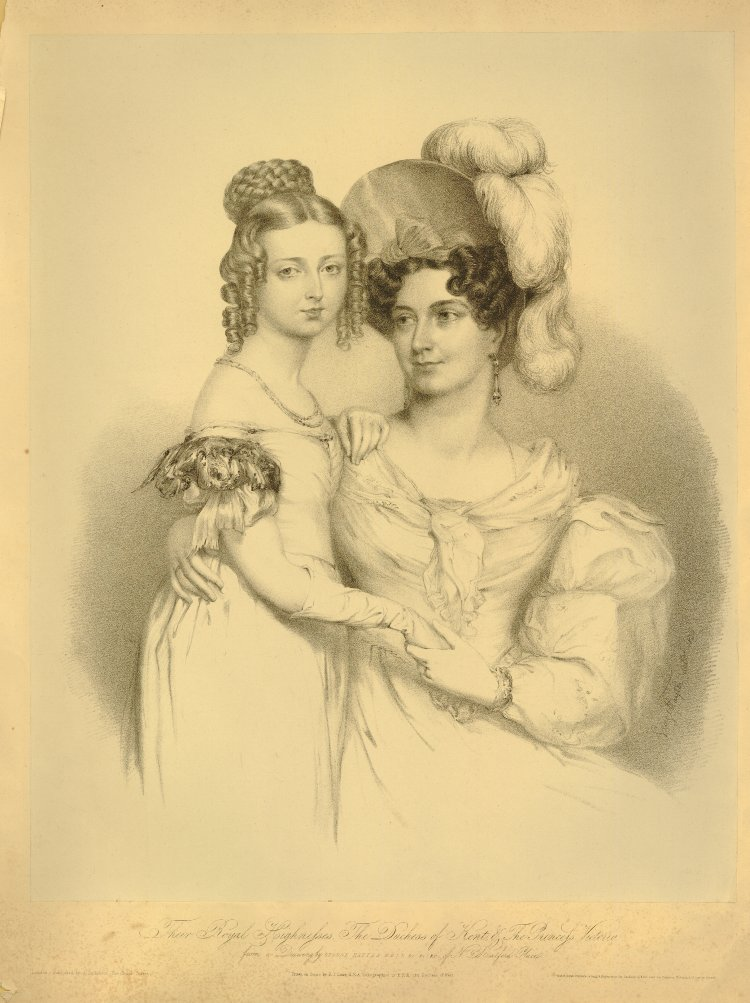 Portrait vignette of Queen Victoria as a child with her mother the Duchess of Kent; three quarter length, the Duchess, seated, holding Victoria's right hand, standing; after G. Hayter